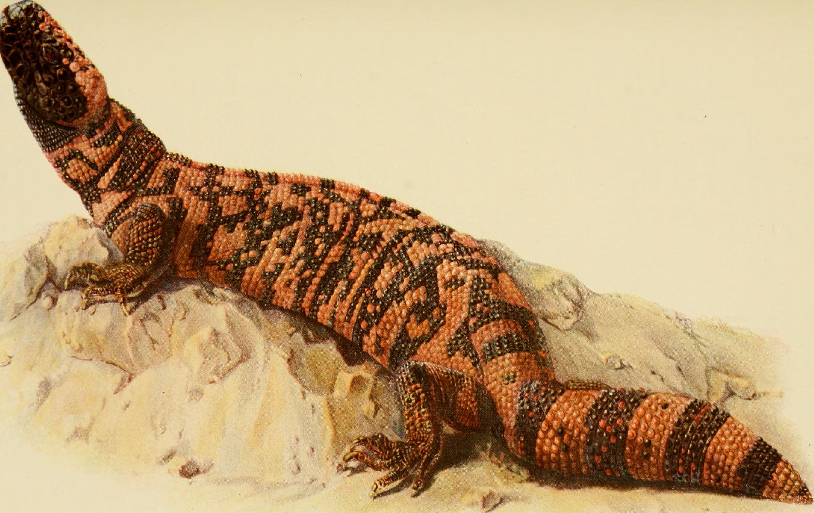 Title: ... Animaux venimeux et venins: la fonction venimeuse chez tous les animaux; les appareils venimeux; les venins et leurs propriétés; les fonctions et usages des venins; lénvenimation et son traitement Year: 1922 (1920s) Authors: Phisalix, Marie, 1861- Subjects: Poisonous animals; Venom; Venom Publisher: Paris, Masson & co. Text Appearing Before Image: ' Text Appearing After Image: ^